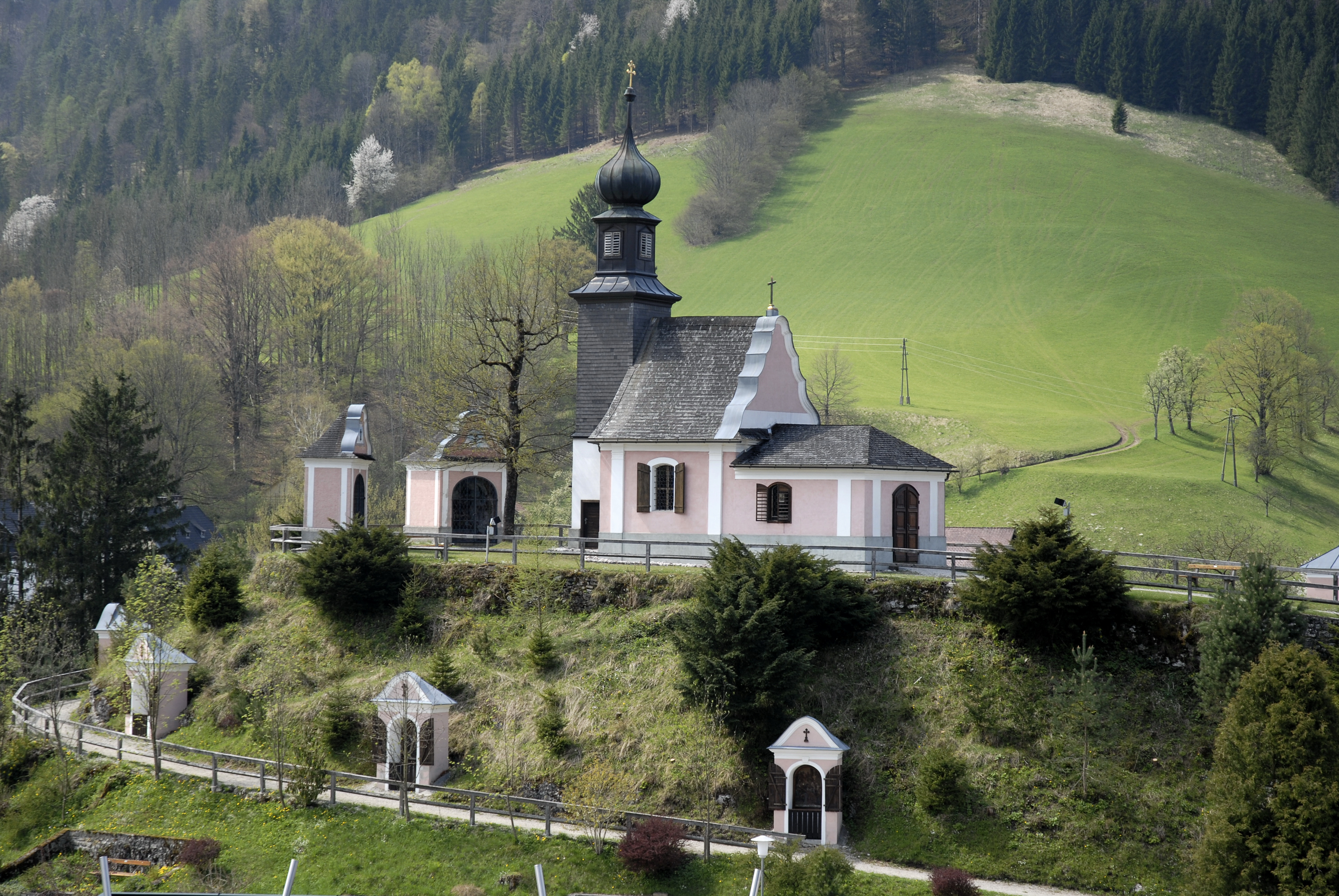 Calvaria mountain in Hollenstein an der Ybbs, Lower Austria